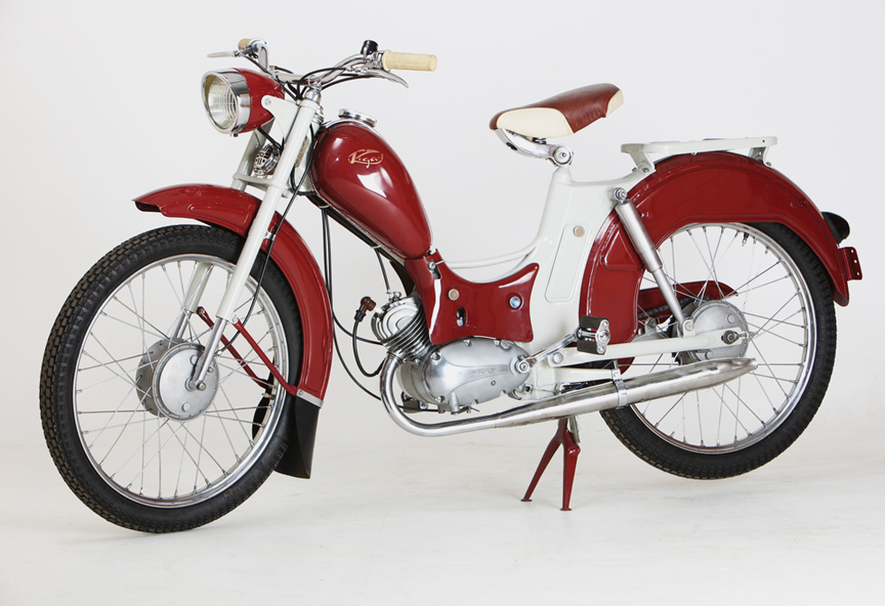 USSR moped « Riga-1», Riga motorcycle factory 1962